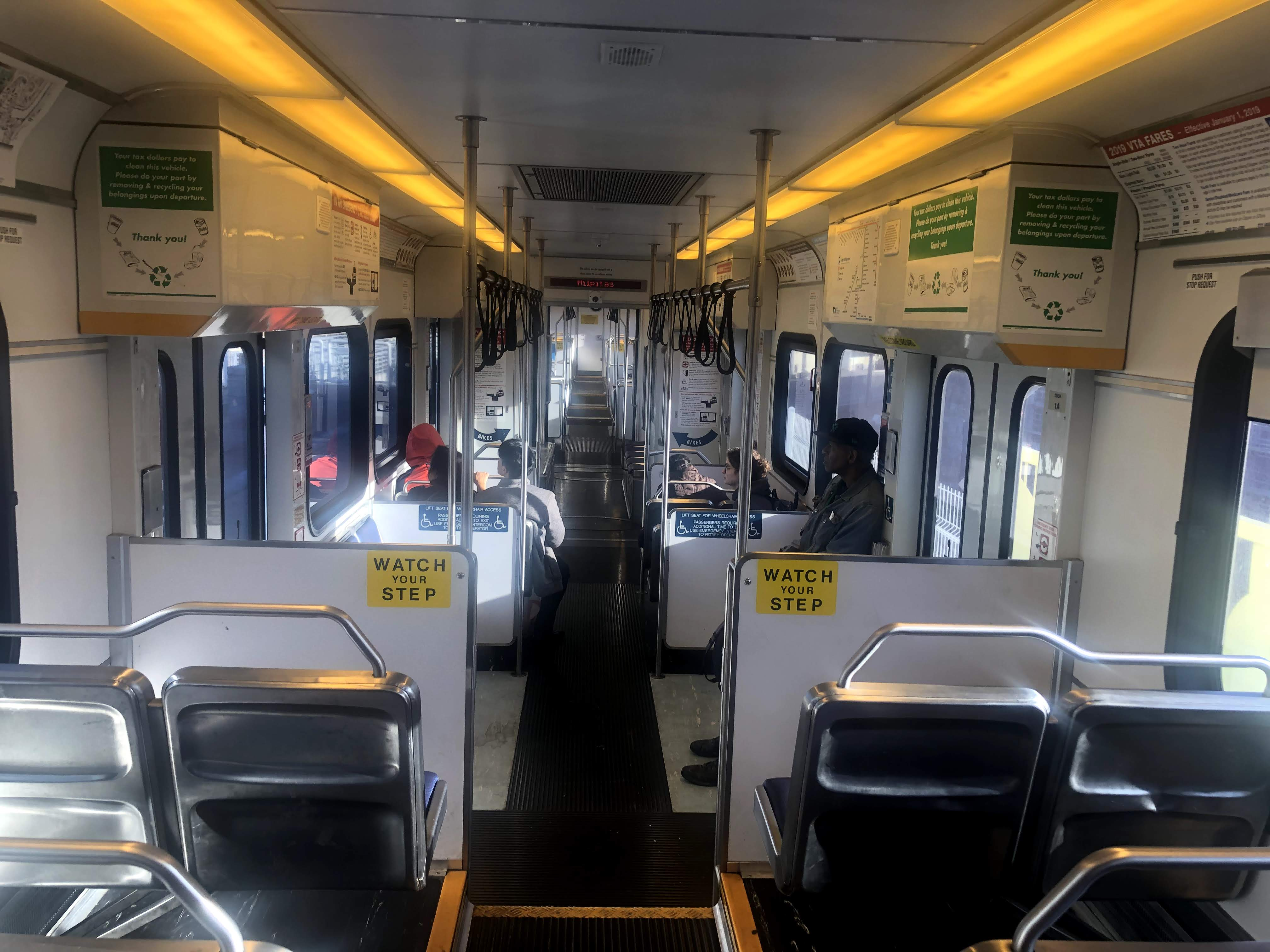 First time riding VTA light rail. On Orange Line to Alum Rock